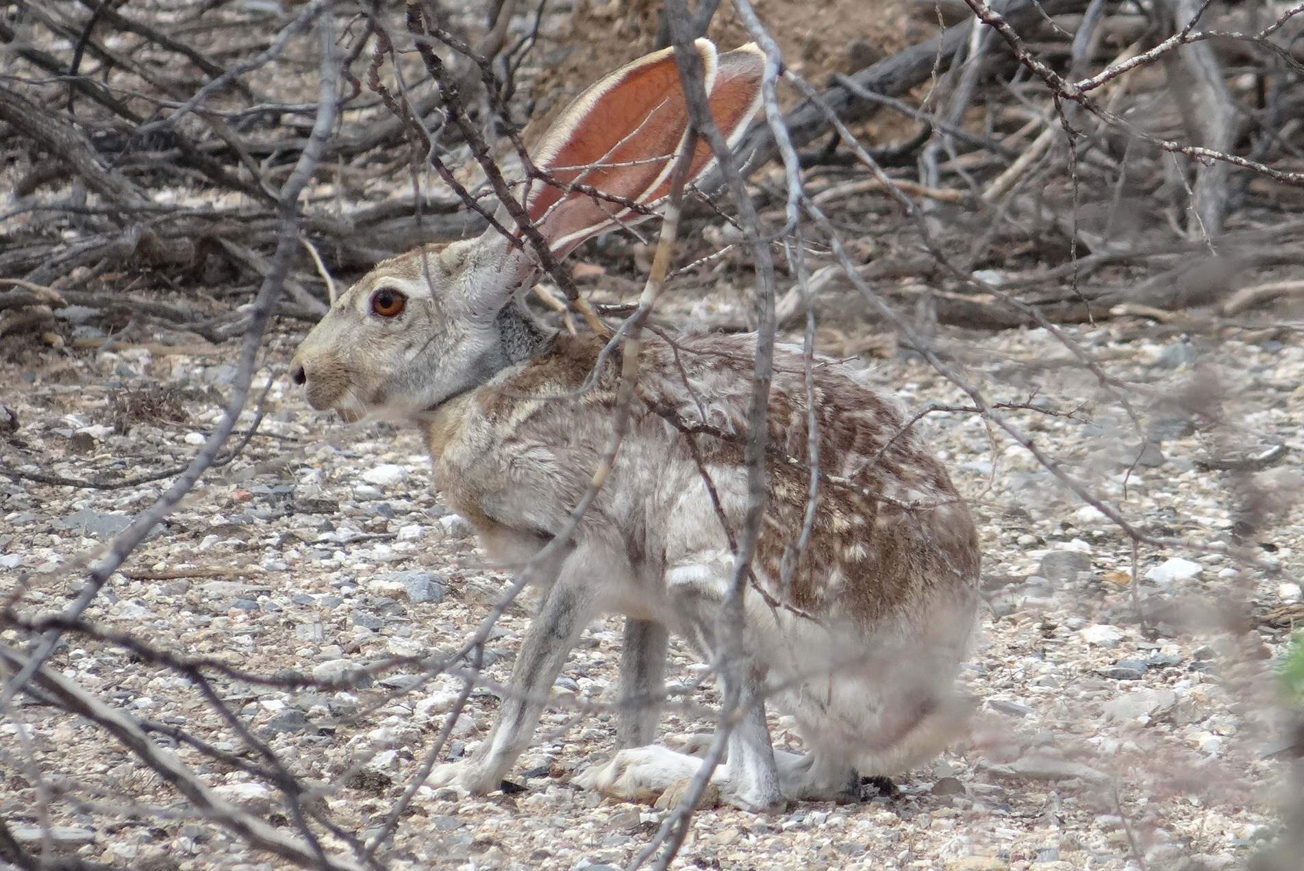 Antelope jackrabbit in Saguaro NP, Tucson, AZ